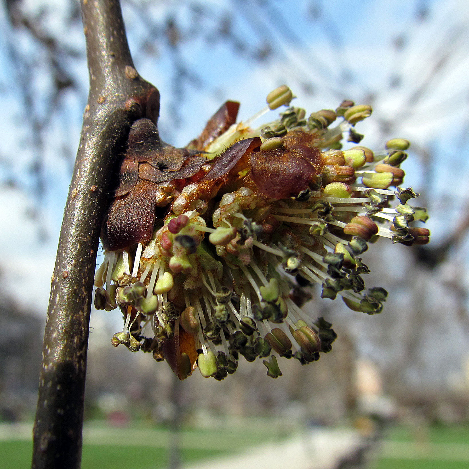 Ulmus glabra inflorescence